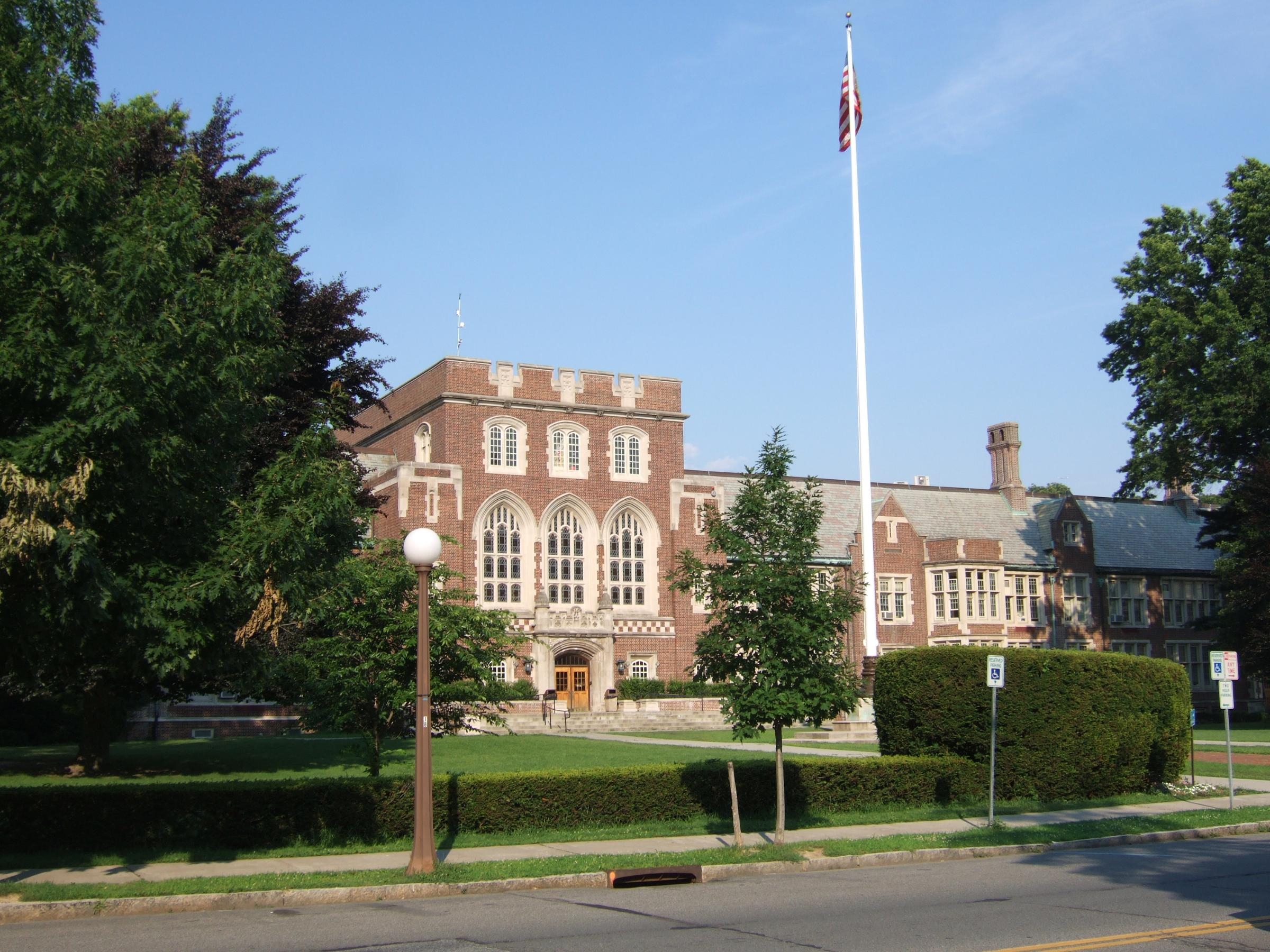 Photo of The Bronxville School, a Guilbert and Betelle design, taken in July 2006.